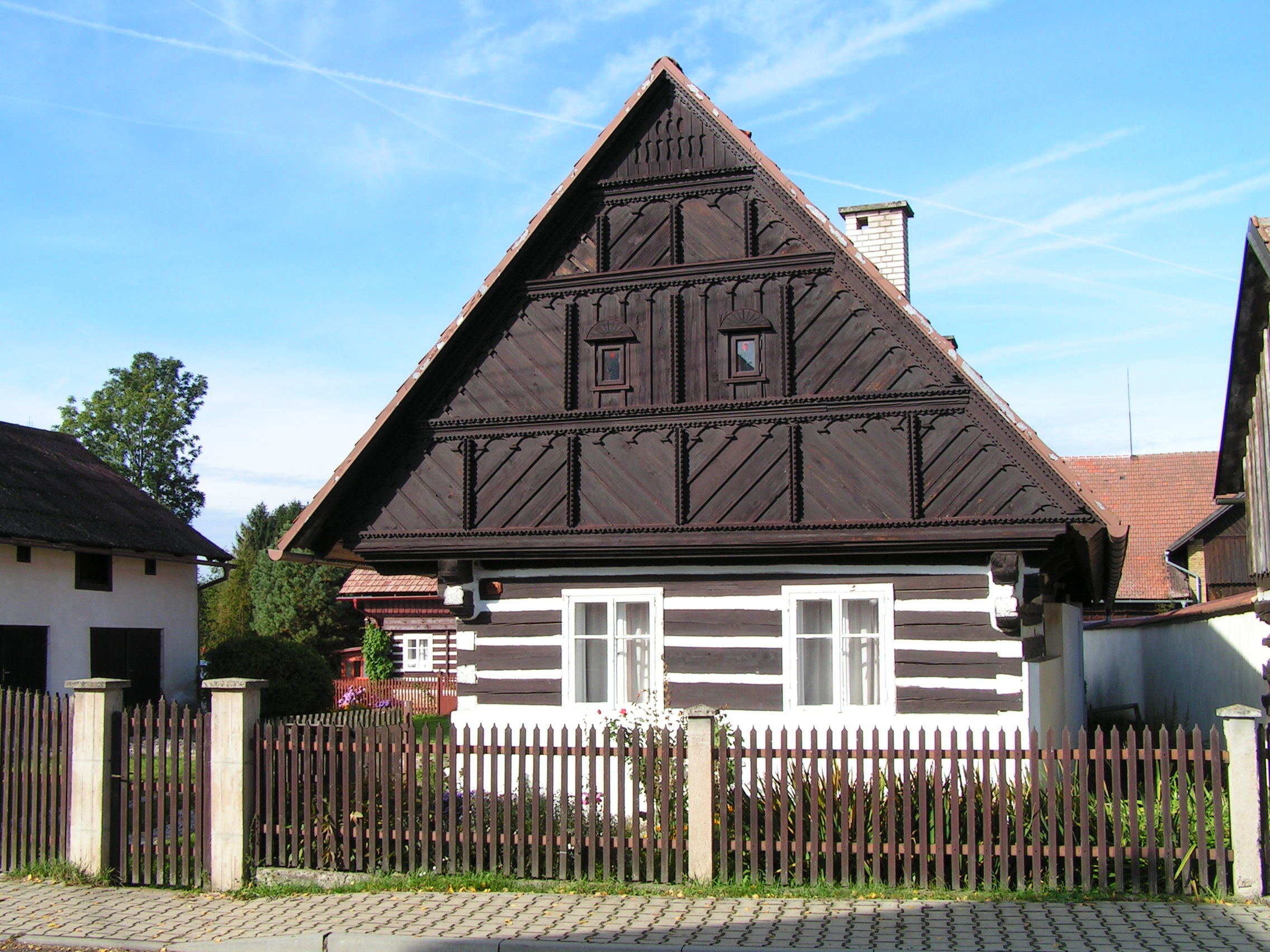 Wooden house in Radim-Studenany (Jicin district)